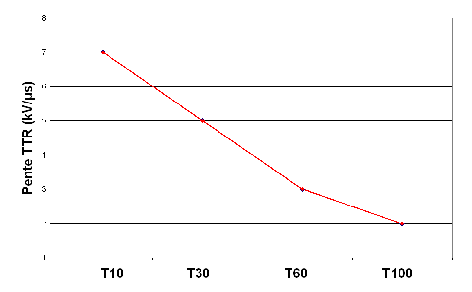 rate of rise of recovery voltage for HV circuit breakers